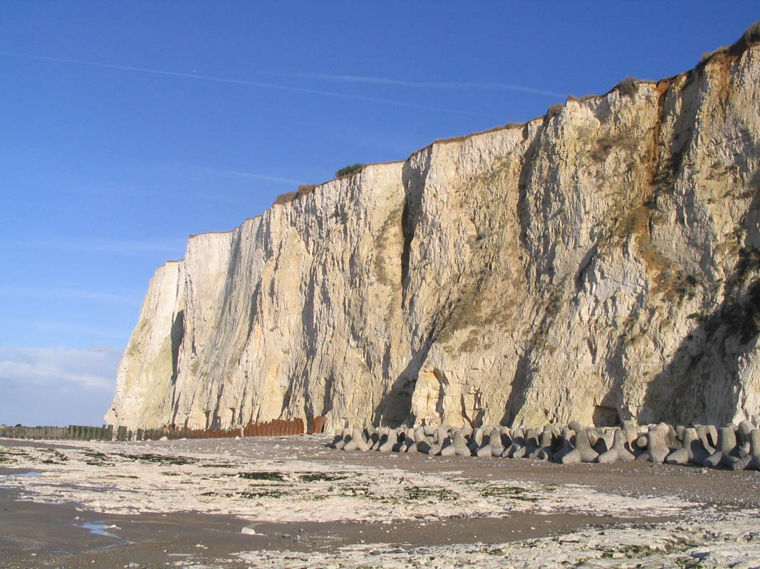 Concrete tetrapods dating from 1963 are to be moved before beeing covered with rocks in order to protect the cliff. This photo was taken at ebb tide, from Mers-les-Bains.